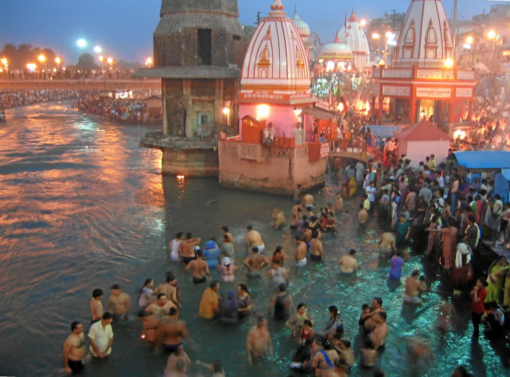 On the way back from a weekend of river rafting in Rhishikesh we stopped in Haridwar, because the Aarti ceremony was soon about to start. It was an amazing experience with this huge number of people and all the lights. Some of my Indian colleagues took a dip in the water. Few of them even did the 100 dips. The picture was taken with a Canon Ixus and just placing it on the edge of a bridge, so unfortunately it is not totally sharp. See where this picture was taken. [?]